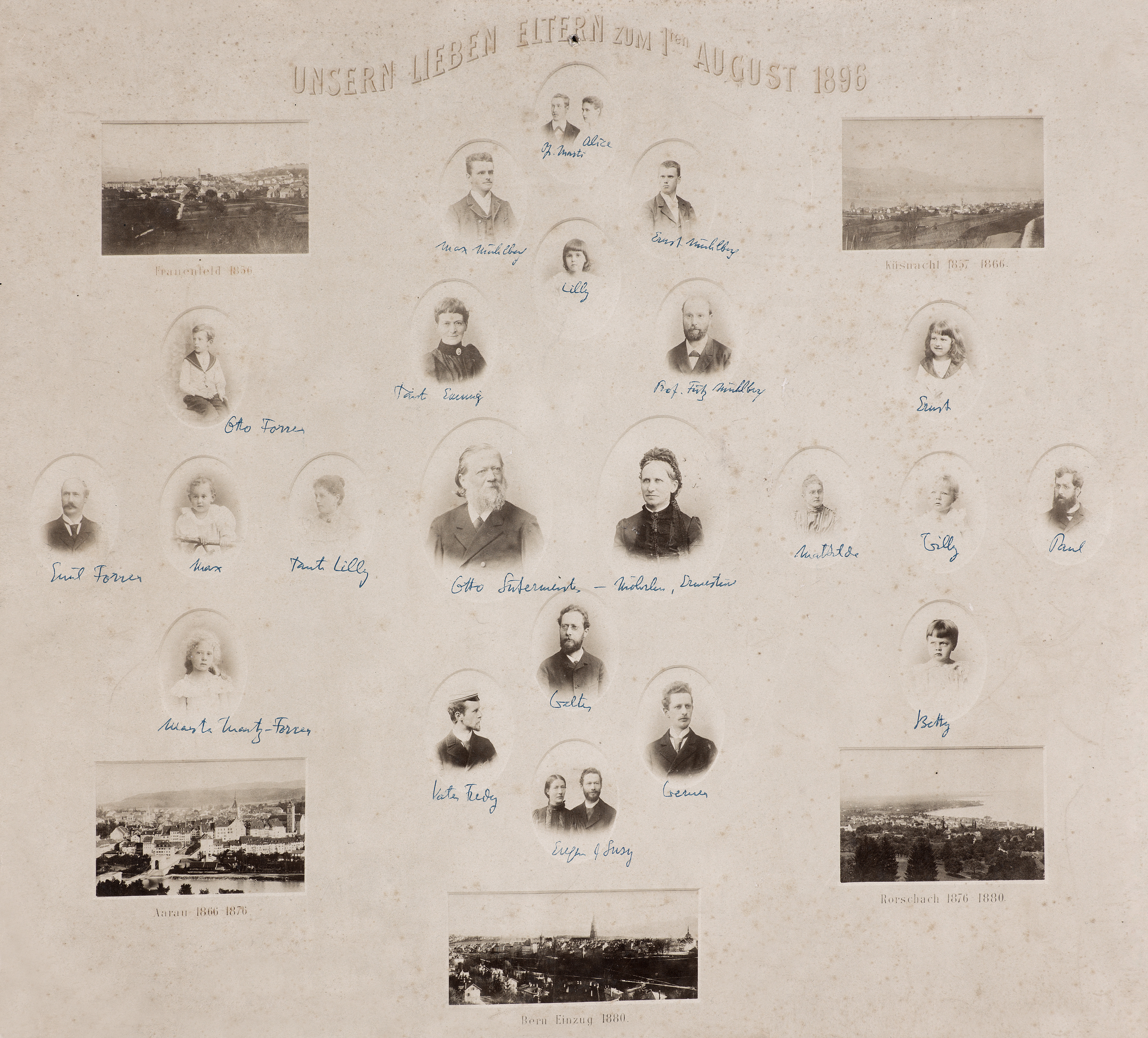 Family tree on the occasion of the 40th wedding anniversary of Ernestine Moehrlen and Otto Sutermeister, 1 August 1896. The graphic depicts Ernestine Moehrlen (1832–1900) and Otto Sutermeister (1832–1901) (couple in in the middle) and their life stages: Frauenfeld 1856 (year of marriage), Küsnacht 1857–1866, Aarau 1866–1876, Rorschach 1876–1880 and Bern 1880–. The couple is surrounded by their daughters Emilie Sophie Mühlberg (1858–1922; top) and Lily Forrer (1859–1934; left) and sons (Eugen, Paul, Werner, Friedrich and Walter) with their respective spouses and children.